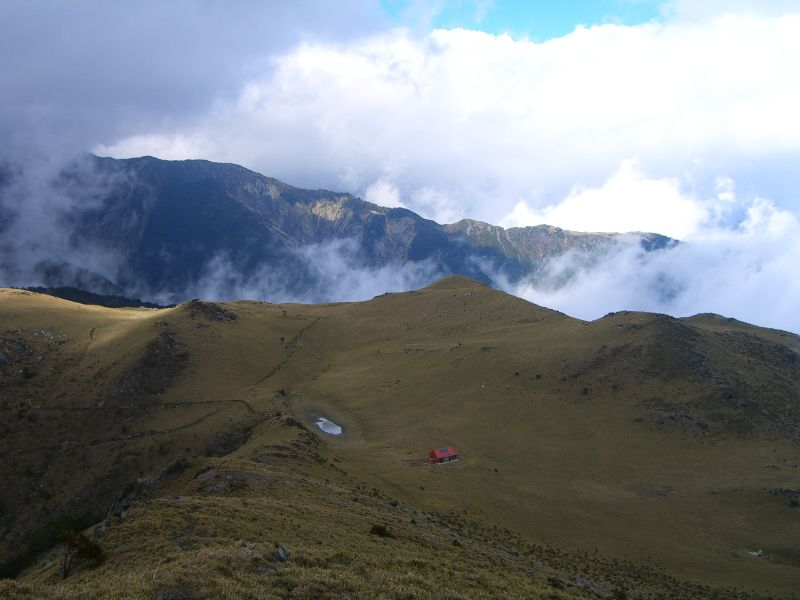 Looking down on Dashueiku.